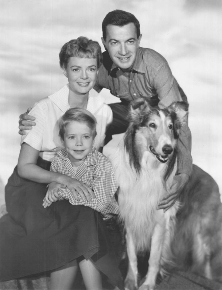 Photo of the 1960 cast of the television program Lassie. Pictured are June Lockhart, Hugh Reilly, Jon Provost and Lassie.